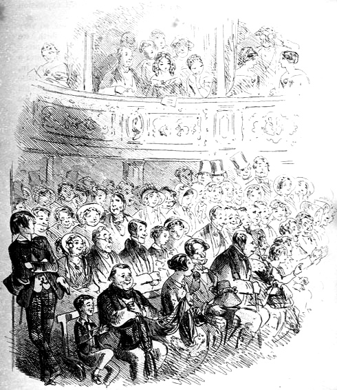 Mr. Guppy's desolation Phiz (Hablot K. Browne) 1853 Etching 4 1/8 x 4 1/8 inches on a page of 8 7/16 x 5 inches Facing p. 121 of Dickens's Bleak House